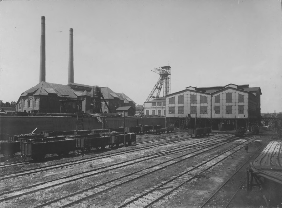 Jowisz coal mine in Wojkowice, Poland; winding towers of shafts Karol (lower) and Edward (higher)